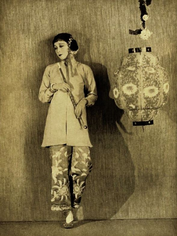 Actress Etta Lee (1906 – 1956), on page 15 of the January 1923 Shadowland.